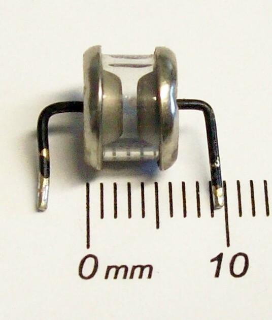 gas discharge surge arrester